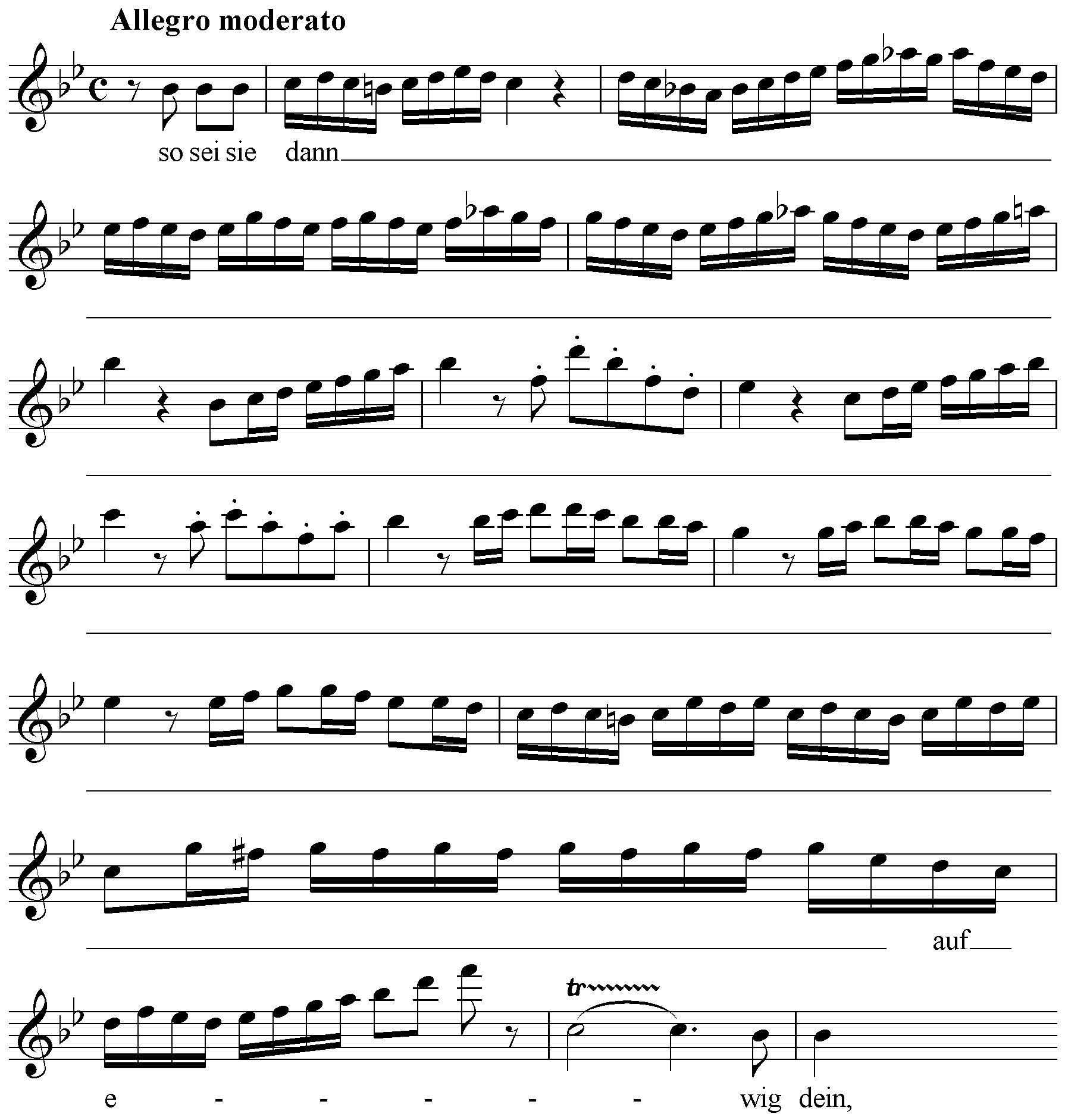 The famous coloratura passage in the first aria for the Queen of the Night in Mozart's opera The Magic Flute.